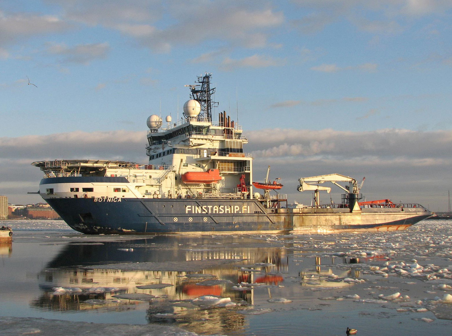 Finnish multipurpose icebreaker Botnica (IMO 9165877) arriving in Helsinki for a crew change on 13 March 2007.